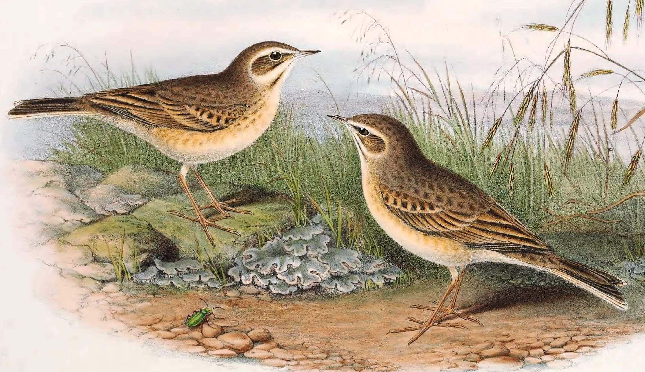 Anthus campestris. John Gould. The birds of Great Britain